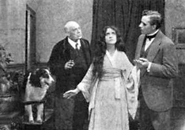 Promotional still from the 1913 film Jean's Evidence, starring Florence Turner and Jean the dog This was the second release of Turner Films